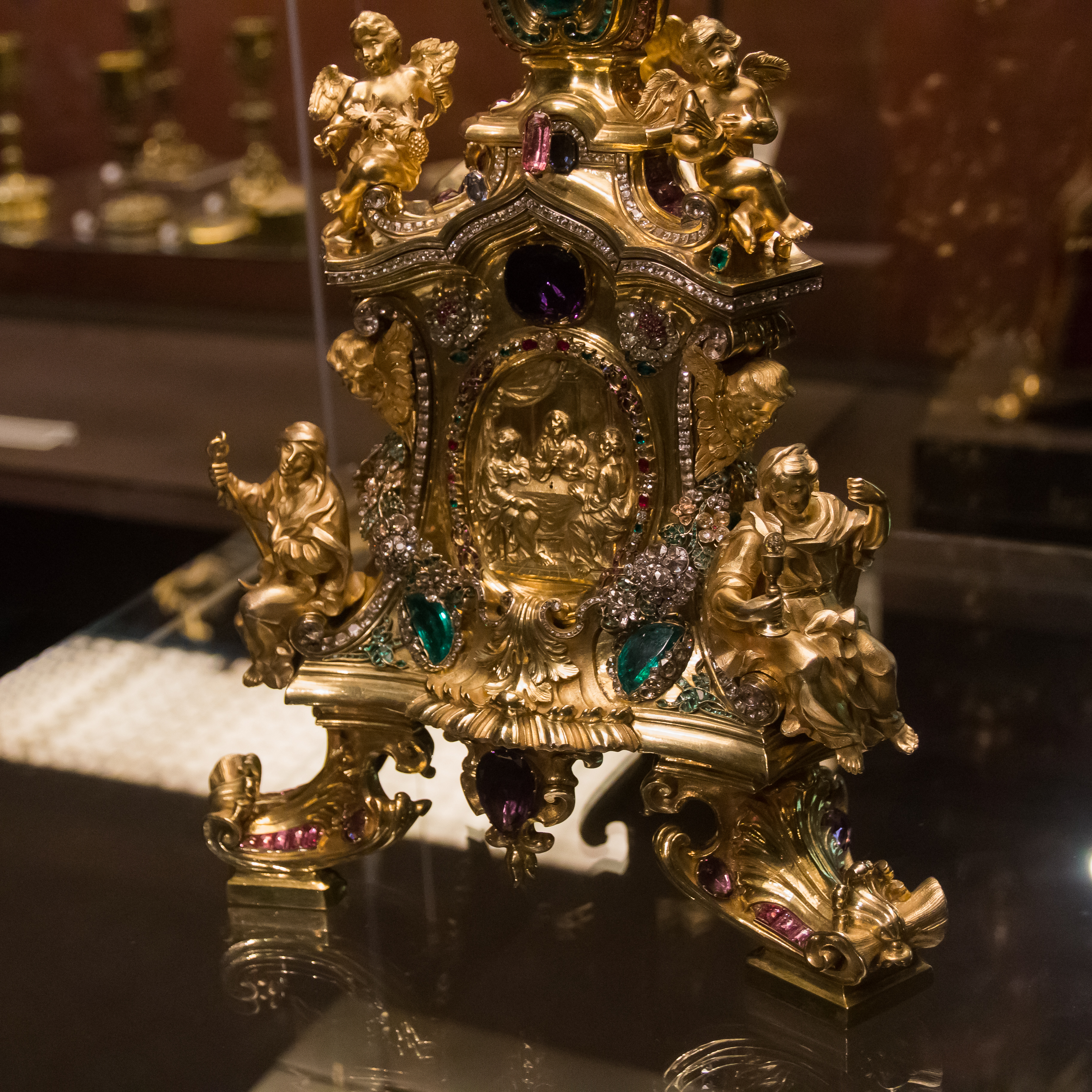 Baase ofthe Monstrance decorated with a partial representation of the Last Supper and embellished with angels, a the good Shepherd (John 10-11), and the Samaritan woman (John 4-14).